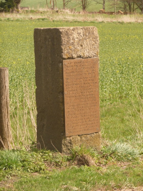 West Lavington: the Robbers’ Stone This memorial warns against the consequences of getting caught thieving: "AT THIS SPOT Mr DEAN, of Imber, was Attacked and Robbed by Four Highwaymen, in the evening of Oct'r 21st 1839. After a spirited pursuit of three hours one of the Felons BENJAMIN COLCLOUGH fell Dead on Chitterne Down THOMAS SAUNDERS GEORGE WATERS & RICHARD HARRIS were eventually Captured and were convicted at the ensuing Quarter Sessions at Devizes, and Transported for the term of Fifteen Years. This Monument is erected by Public Conscription as a warning to those who presumptuously think to escape the punishment God has threatened against Thieves and Robbers"